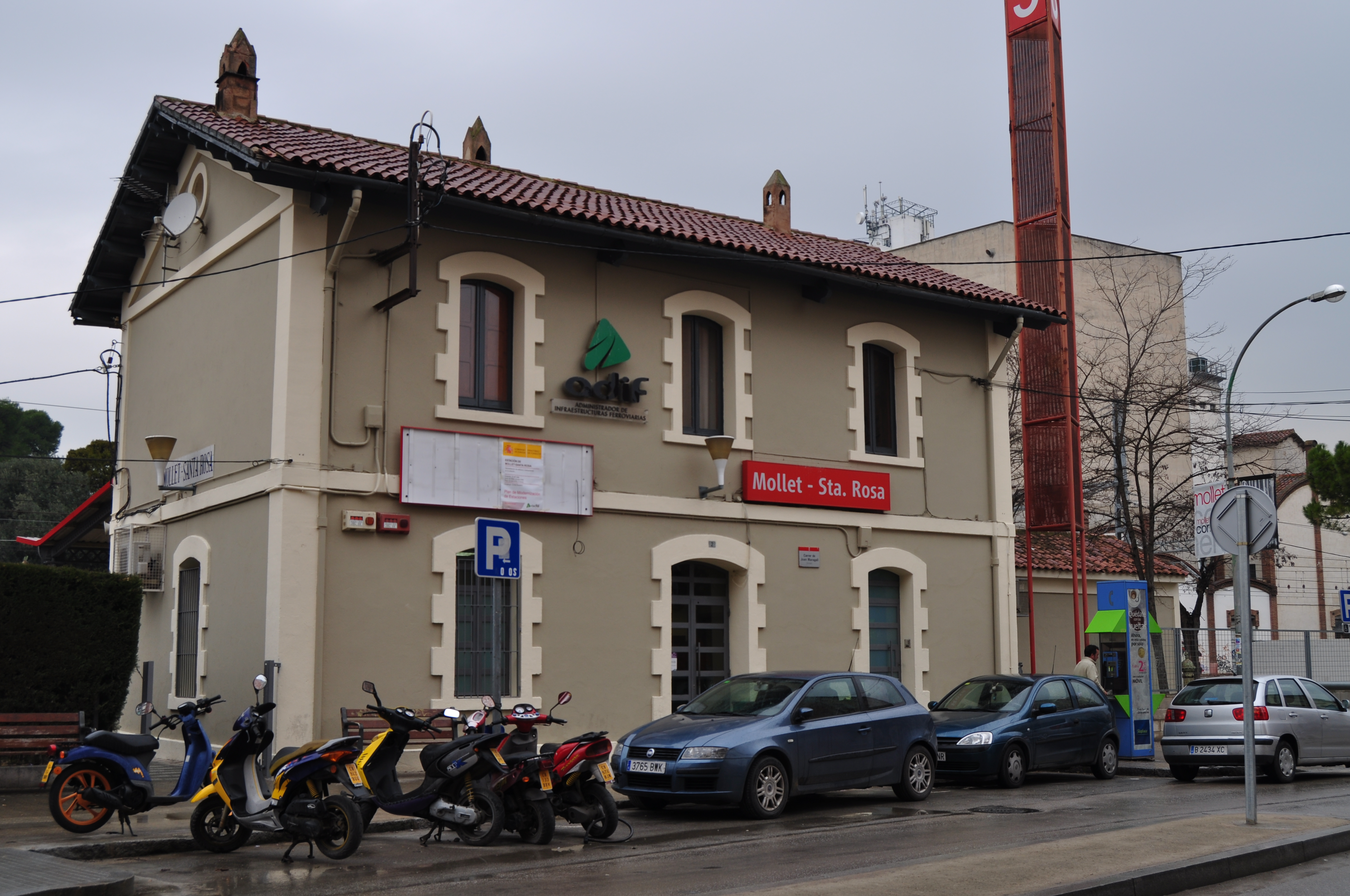 Mollet-Sta. Rosa railway station (Mollet del Vallès, Catalonia, Spain).